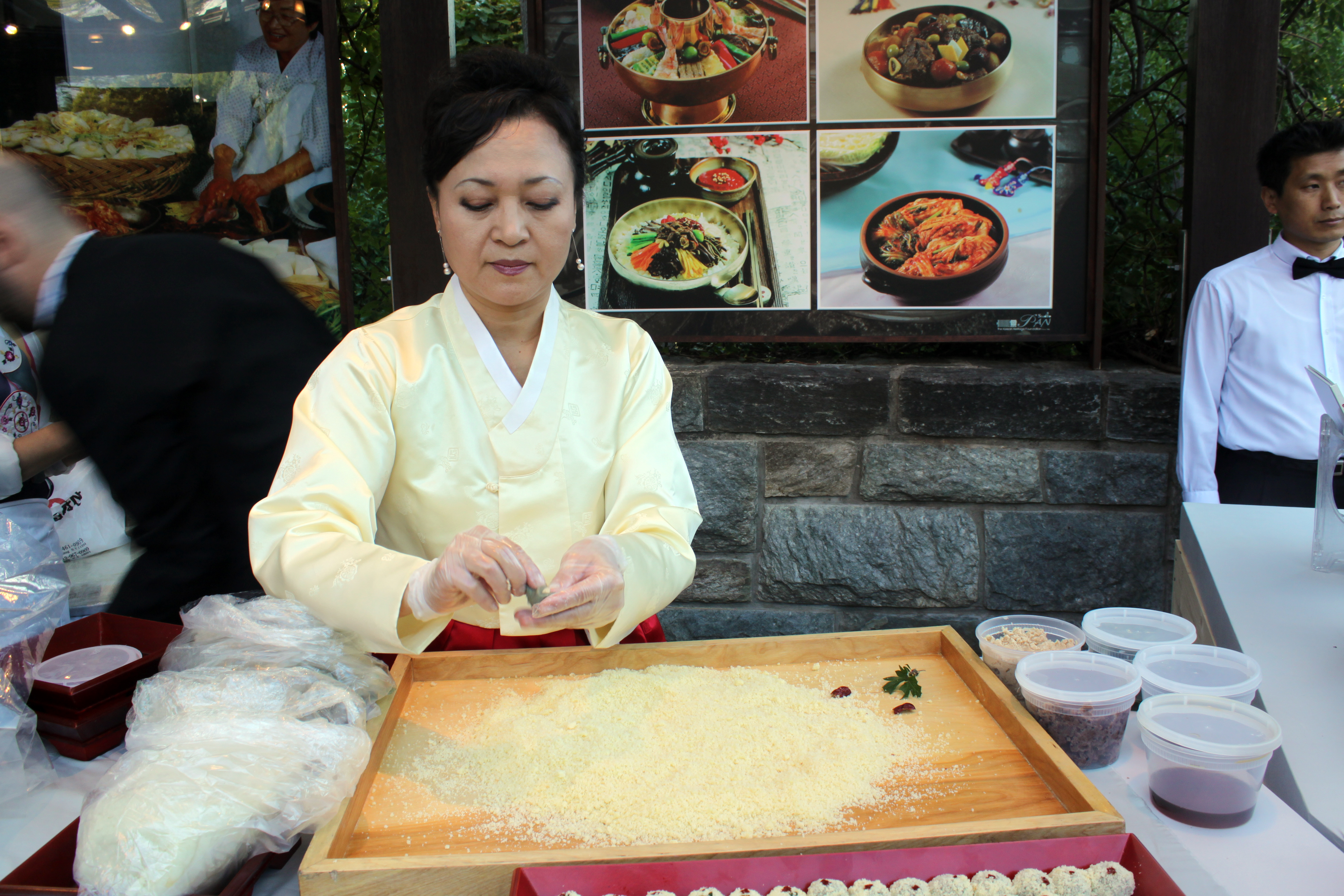 Foundation Day Celebration at Korean Ambassador's House on October 6, 2009.